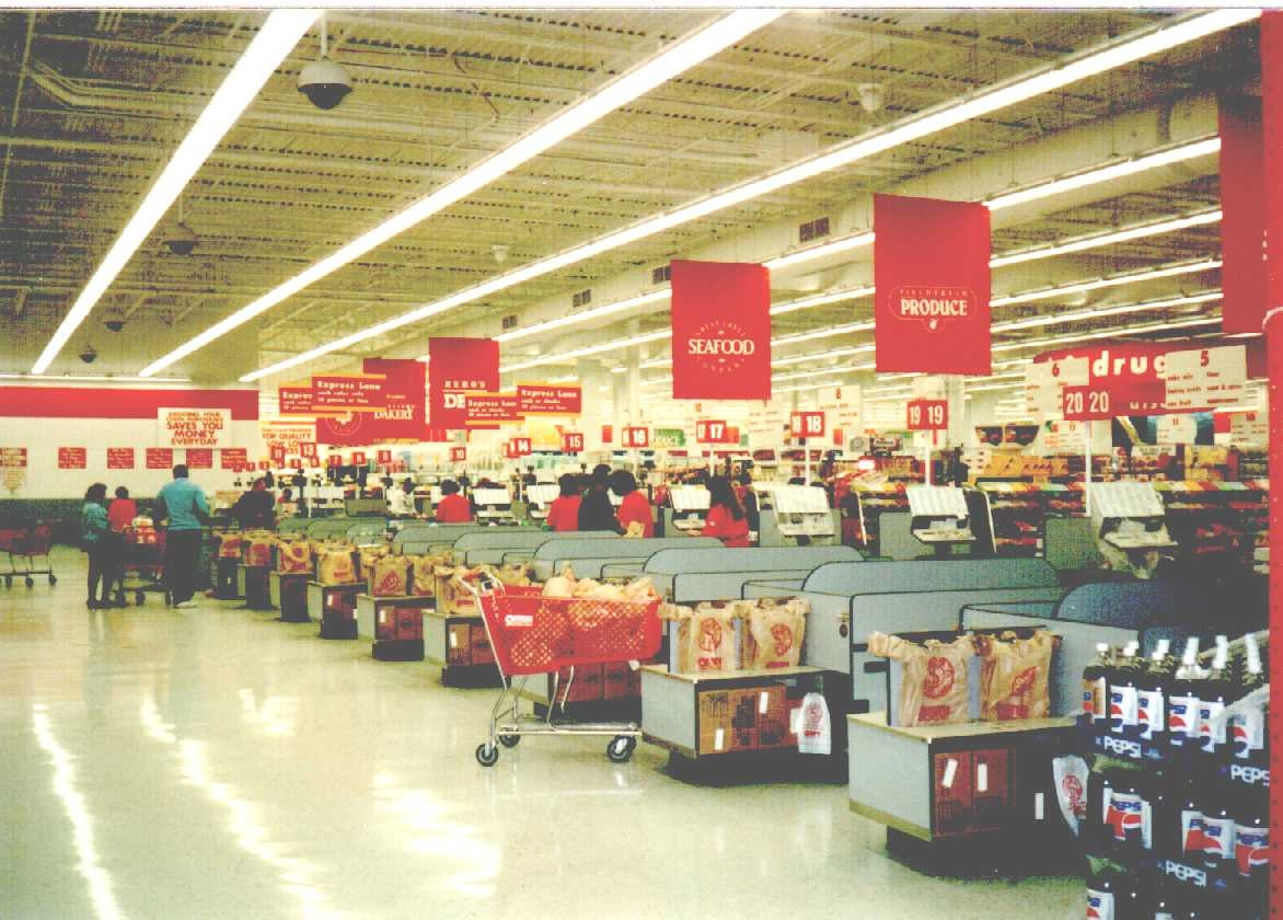 Photo taken by "Retaildesigner" personal photograph April 1991, former Omni Superstore, Schererville, Indiana. In 1997 this store was converted back by Omni owners, Dominick's (around the time Dominick's was purchased by Safeway) to a Dominick's Fresh Store and it ultimately closed 18 months later. Store is now a Strack and Van Til Supermarket which opened in 2003.